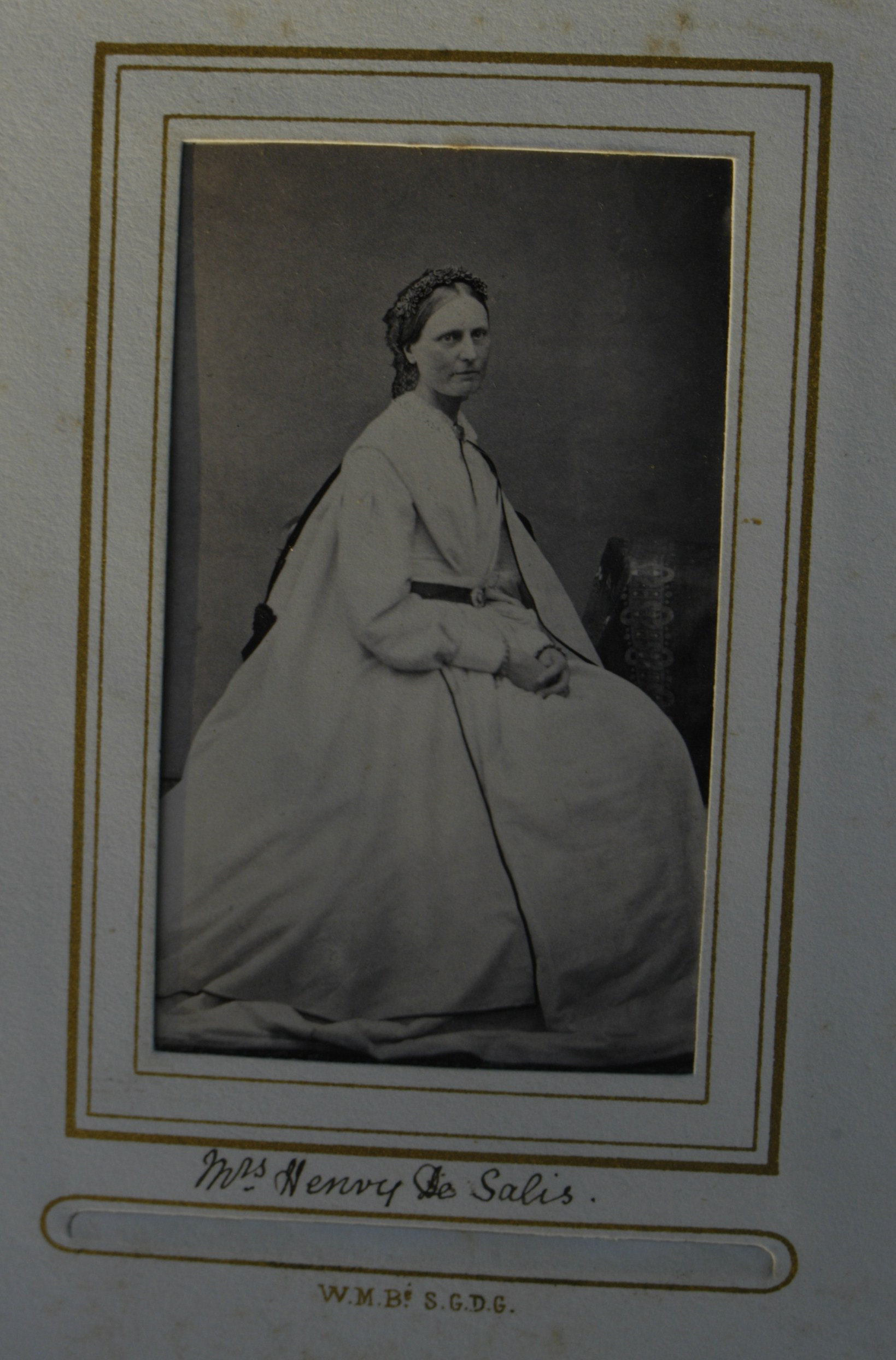 Photo (by me, R. de SalisRodolph (talk)) of a circa 1860 photo of Grace Elizabeth Henley (1823-1898), daughter of Rt. Hon. Joseph Warner Henley, DCL, of Waterperry, and from 1853 wife to Rev. Count Henry-Jerome Fane-de Salis (1828-1915).